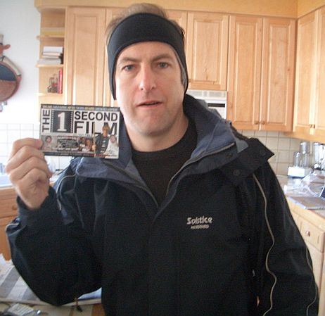 Bob Odenkirk holding a producer credit for The 1 Second Film.